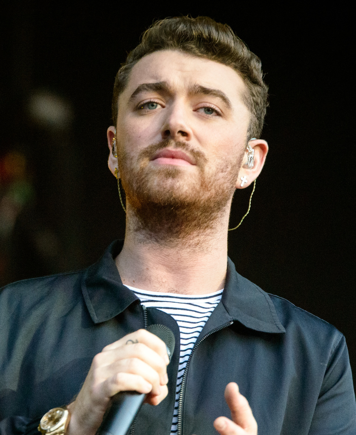 Sam Smith @ Lollapalooza 2015